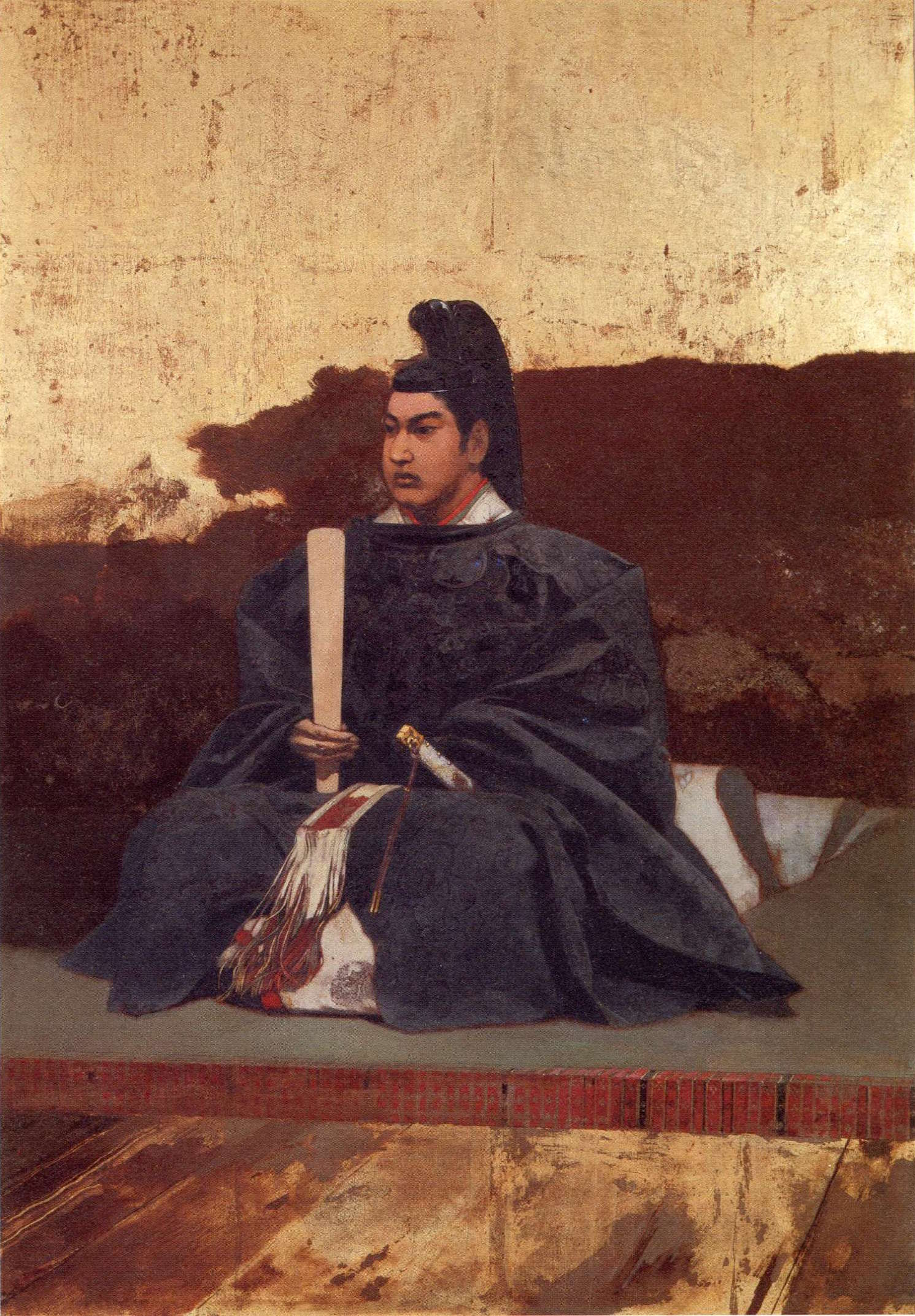 Tokugawa Iemochi, by Kawamura Kiyoo, Tokugawa Memorial Foundation